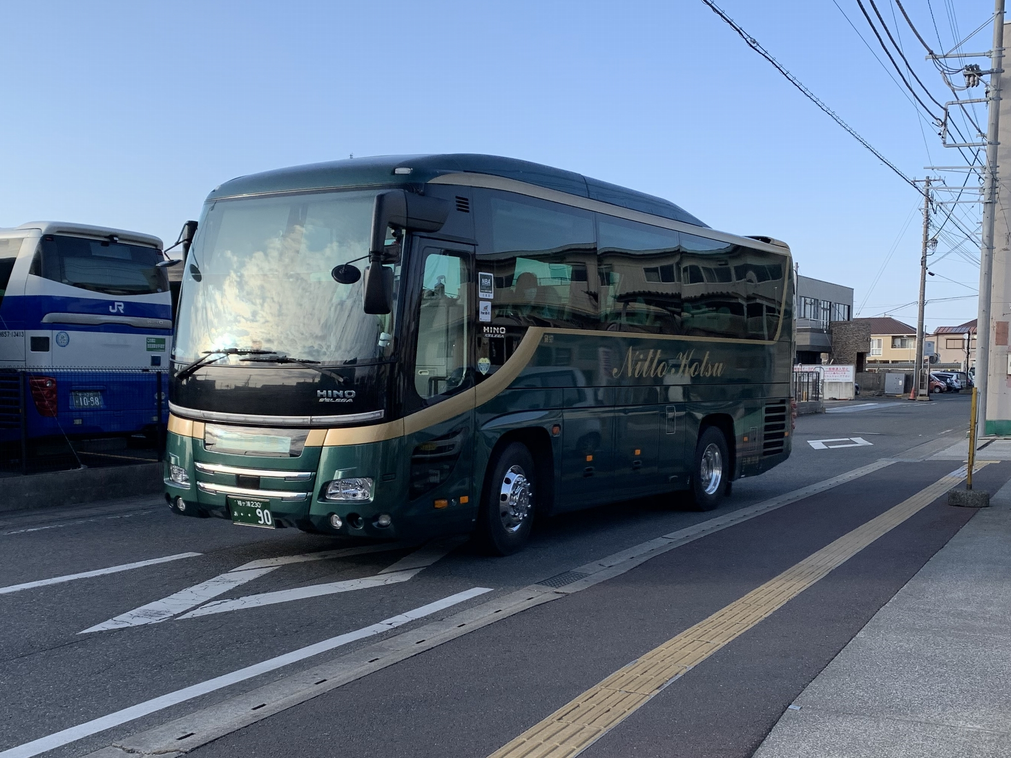 HINO S'elega highdecker short. Taken from outside the premises of Tateyama Nitto Bus head office.